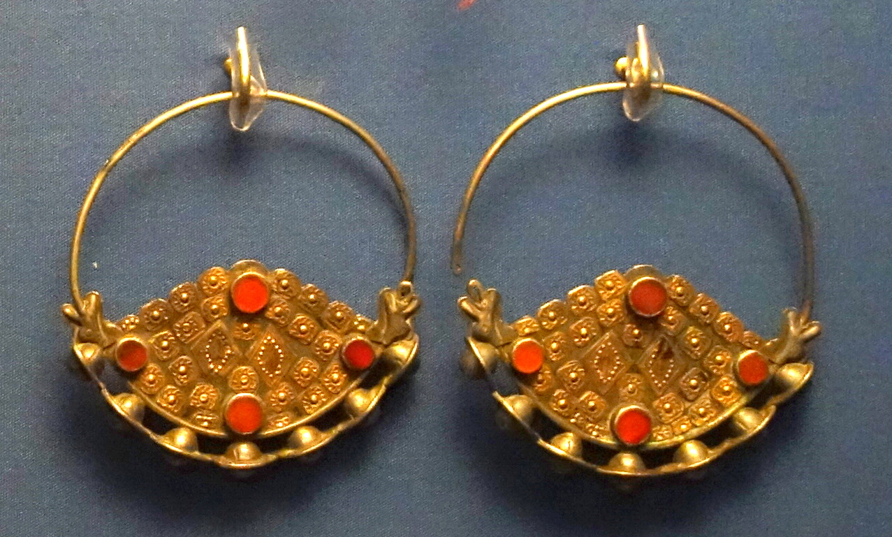 Exhibit in the Fernbank Museum of Natural History, Atlanta, Georgia, USA.